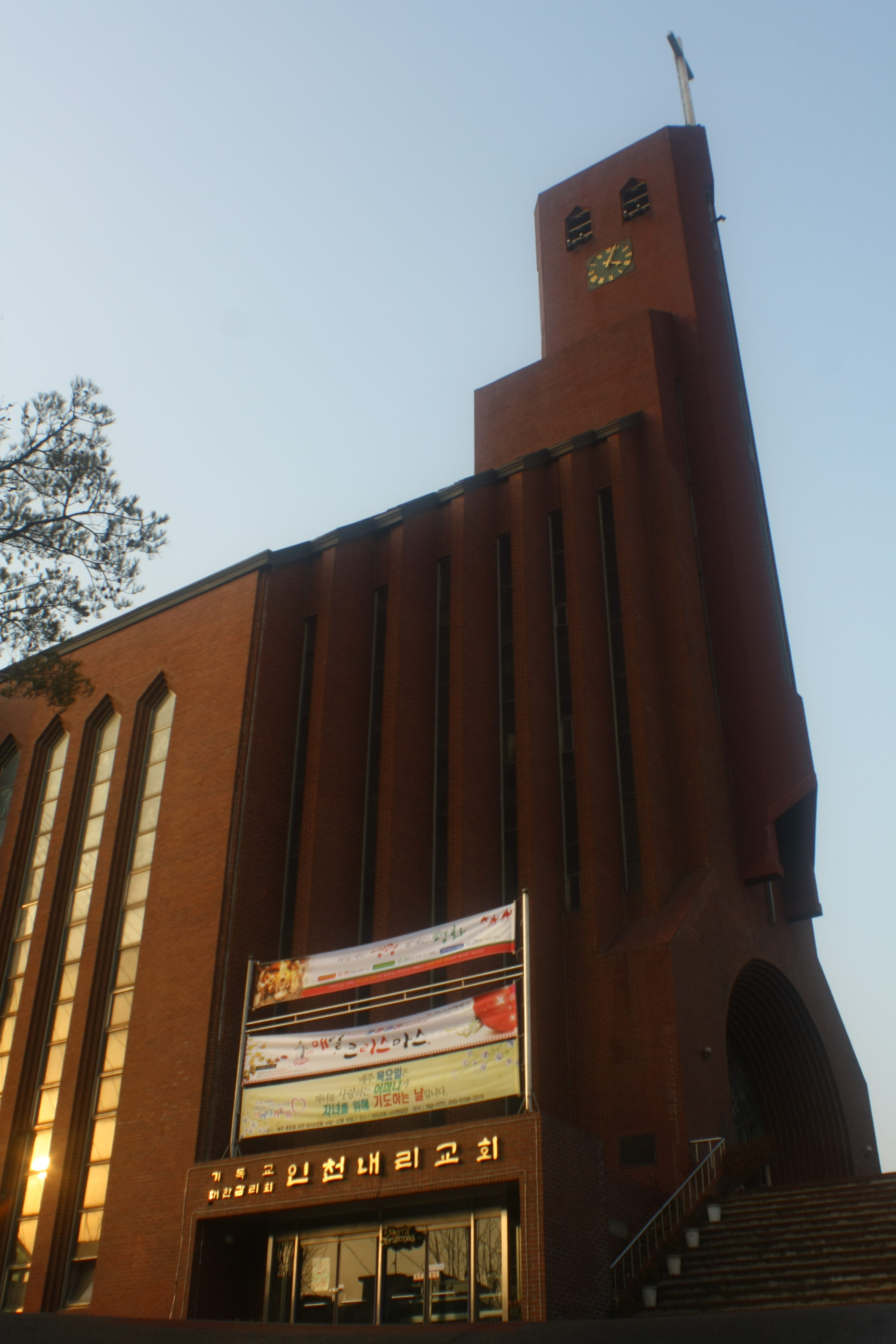 Naeri Methodist church in Incheon, Korea